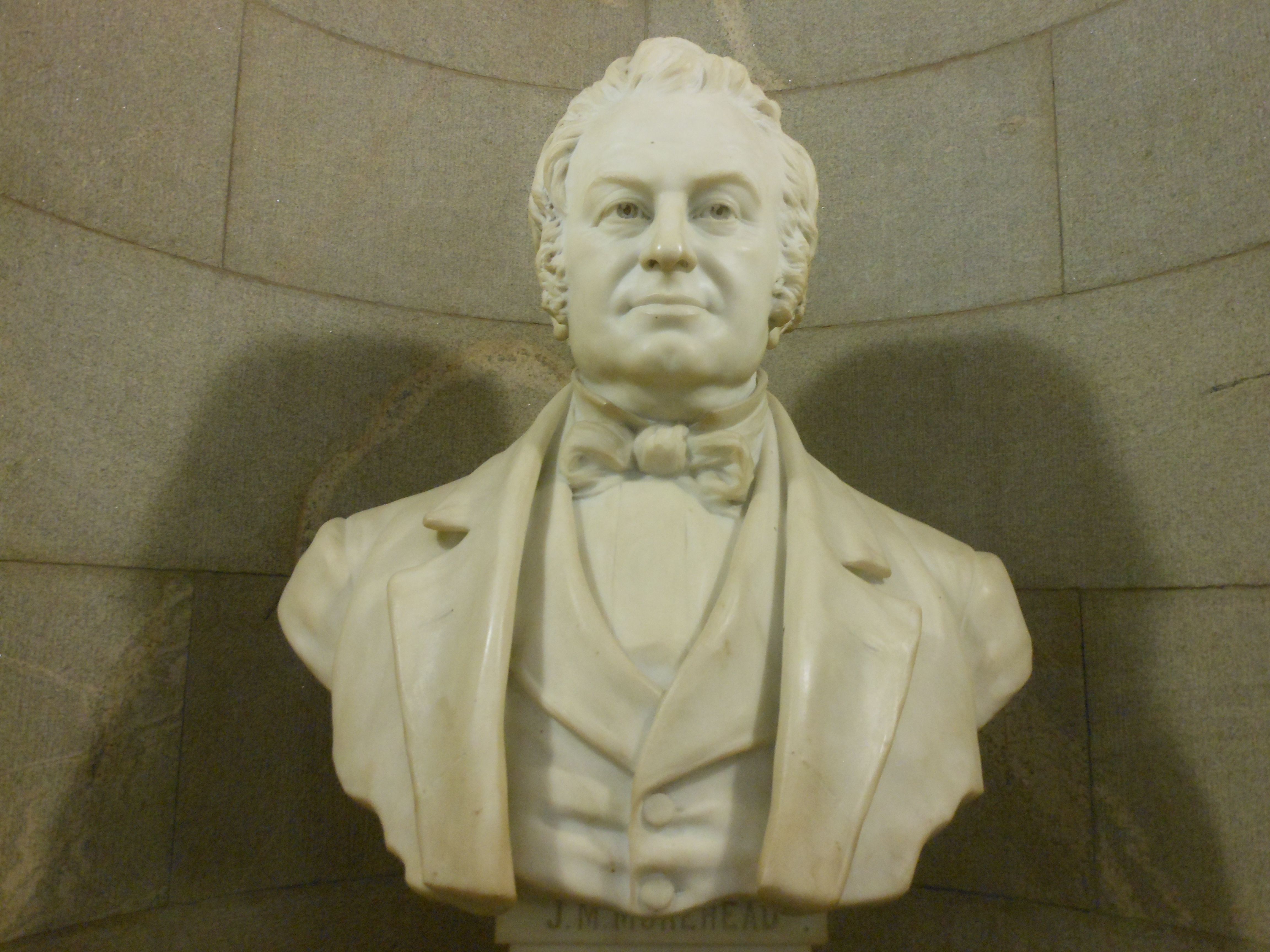 A bust statue of John Motley Morehead at the North Carolina State Capitol in Raleigh, NC.